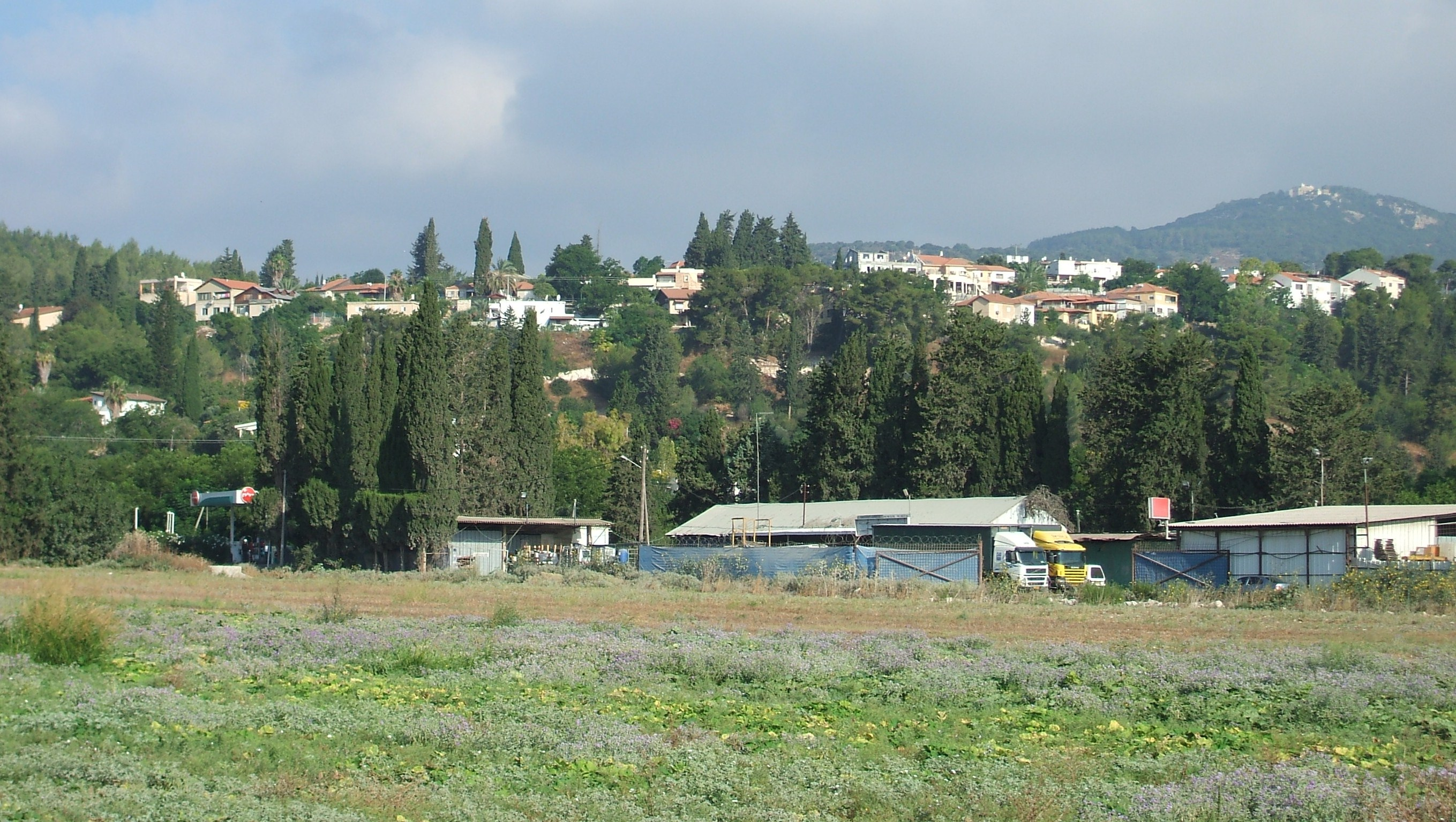 Yokneam (Moshava), Meggido council, Israel